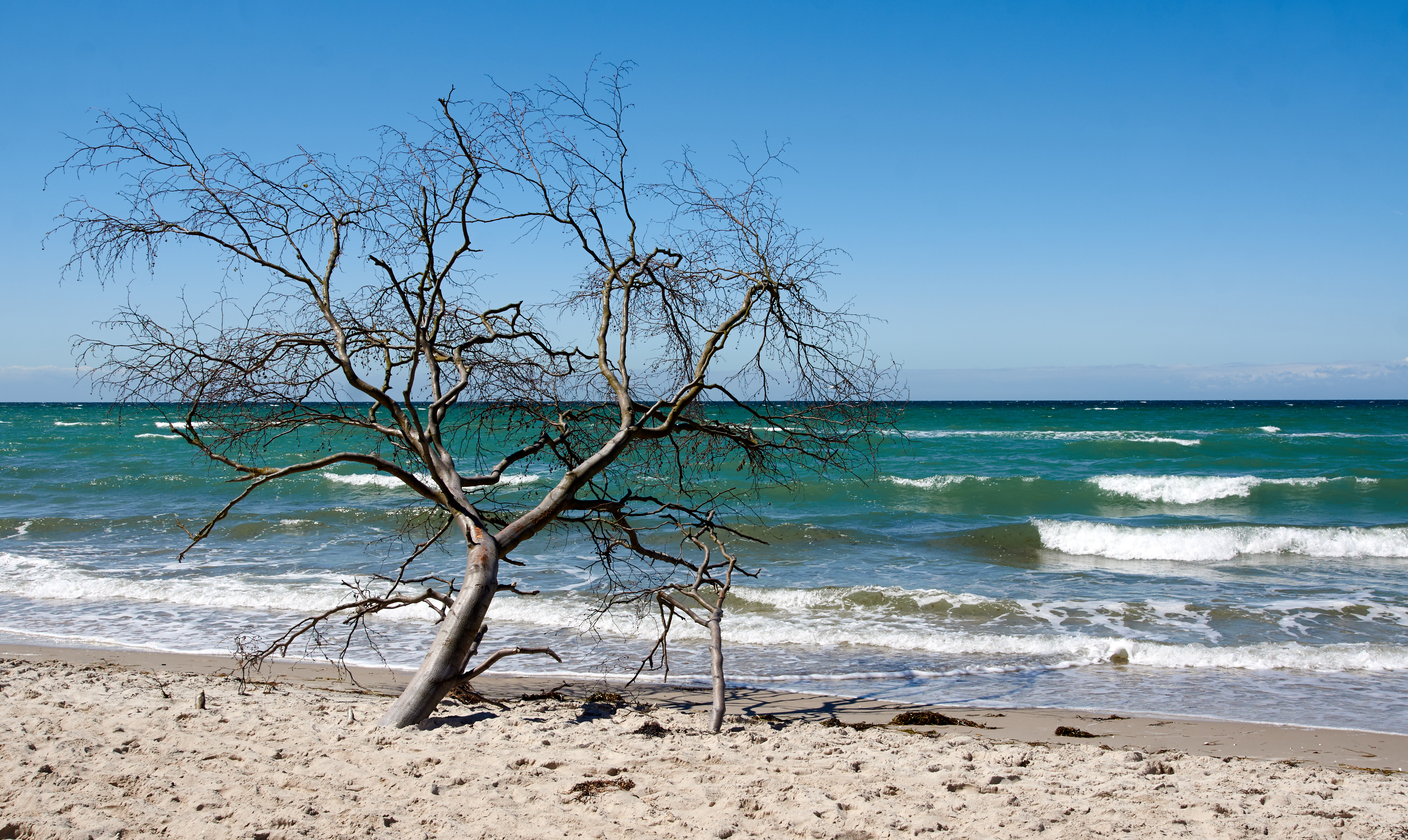 Darß Forest is a wooded region on the western coast of Darß peninsula on Germany's Baltic coast in Mecklenburg-Western Pomerania, Germany. It is part of Western Pomerania Lagoon Area National Park.